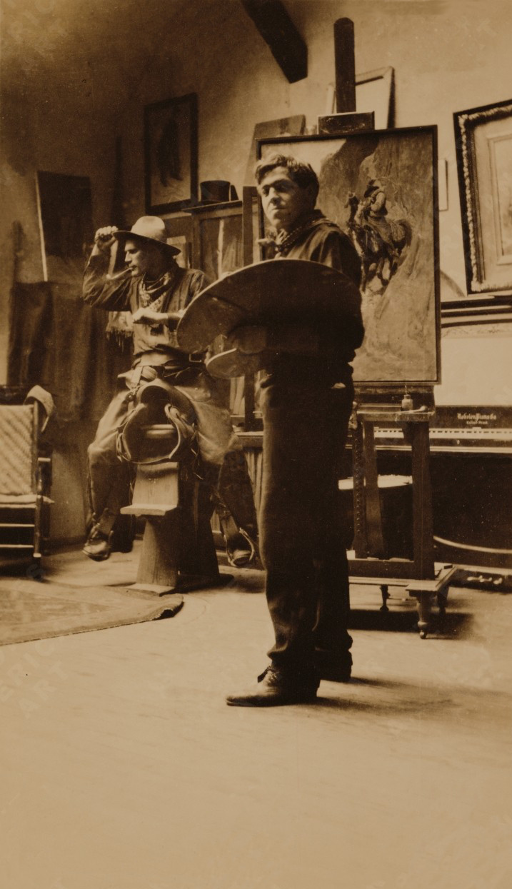 N. C. Wyeth in his studio in Delaware, at work on his painting, Rounding-up, Little Rattlesnake Creek, 1904,. The model is possibly Allen Tupper True.